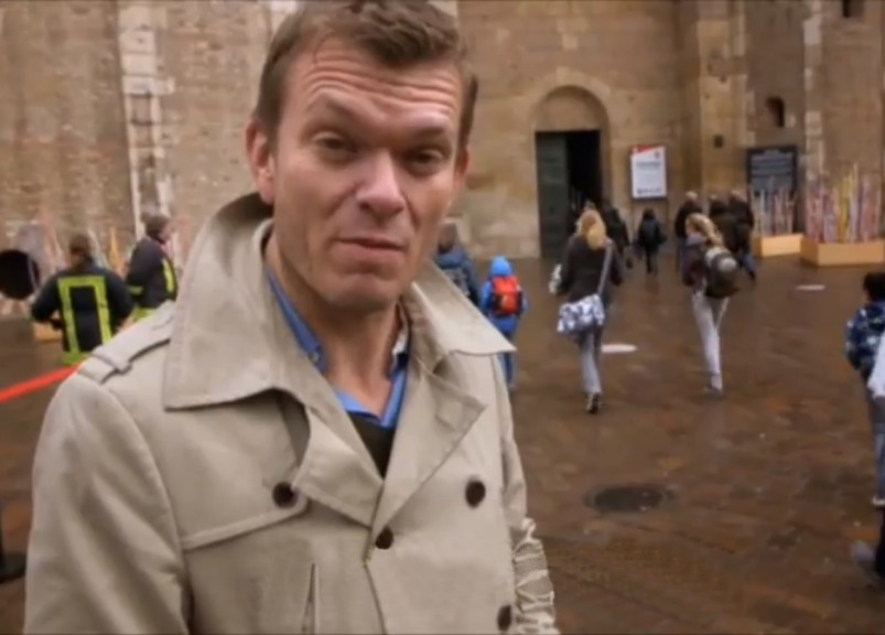 British historian Richard Miles in Trier, Germany, in April 2012